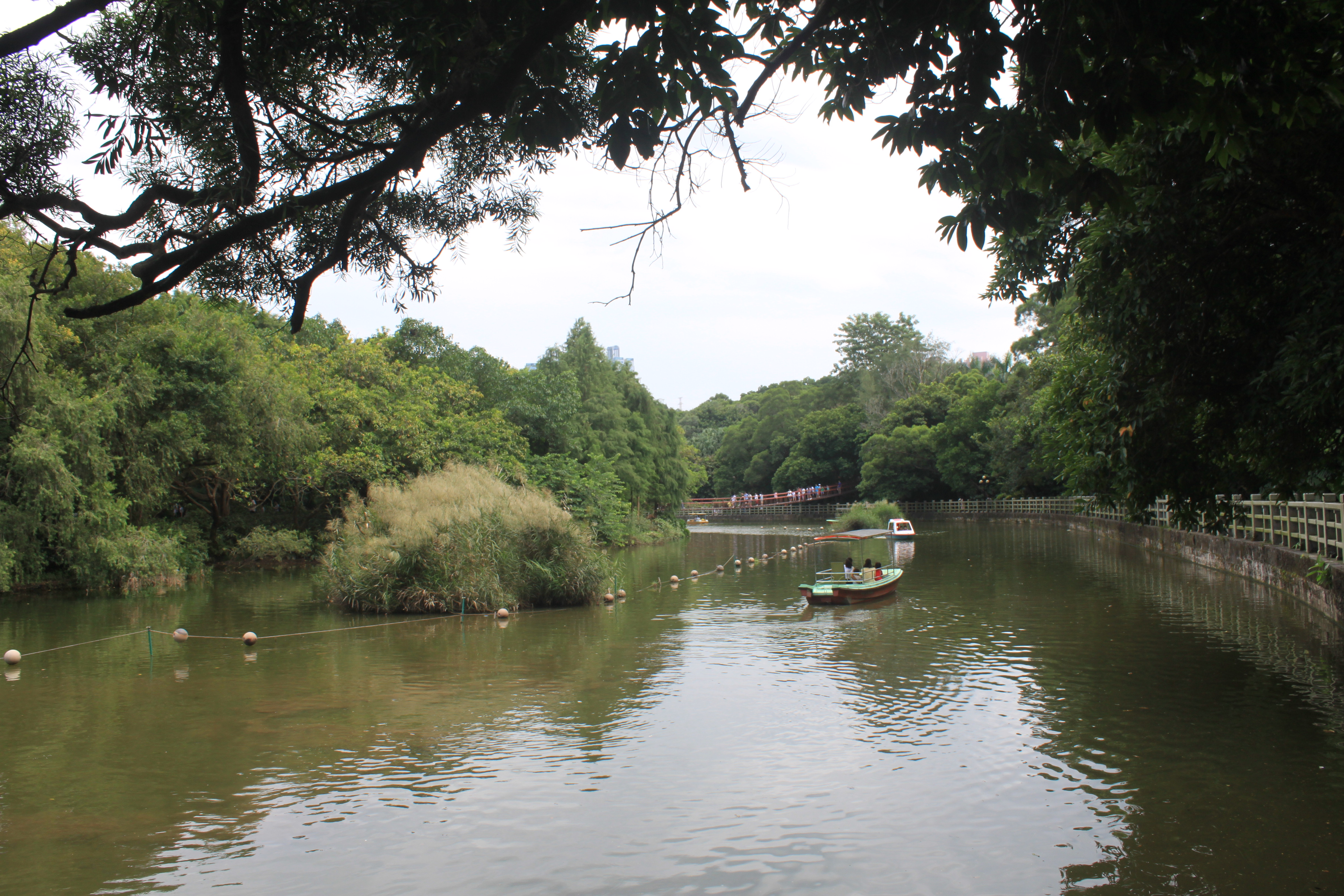 A man-made lake in East Lake Park, in Shenzhen, Guangdong, China. 中文（中国大陆）: 深圳市东湖公园的人工湖。